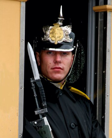 A member of the Swedish Royal Guard on duty at the Royal Palace in Stockholm